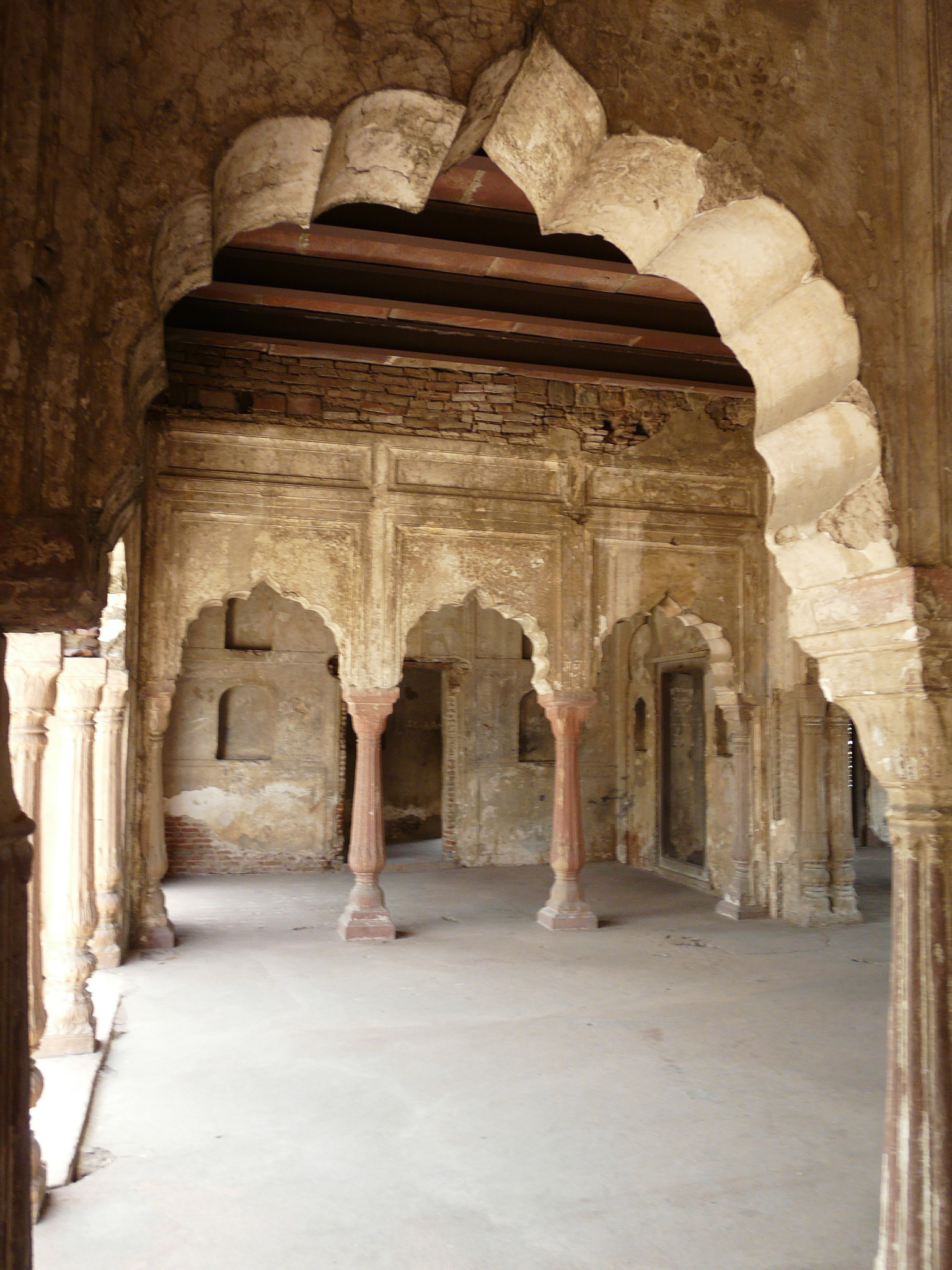 Dalan and semi-enclosed room over Naubat Khana of Zafar Mahal